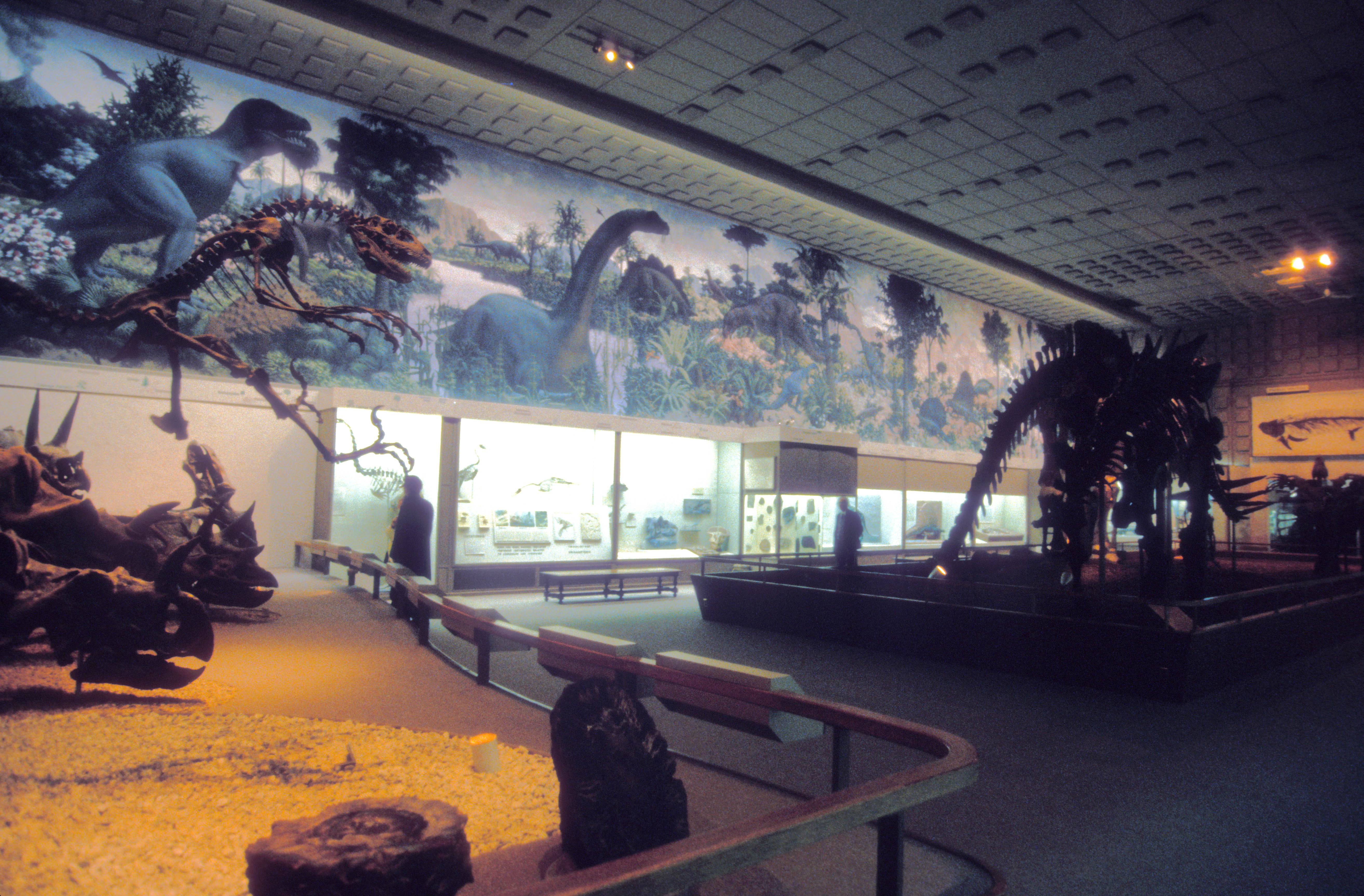 OVERALL VIEW OF THE DINOSAUR ROOM WITH THE FAMOUS MURAL – LARGEST OF ITS KIND IN THE WORLD. MURAL PAINTED IN 1941 BY RUDOLPH ZALLINGER - A SENIOR AT THE YALE SCHOOL OF FINE ARTS. HE WAS BORN IN IRKUTSK, SIBERIA. HE WAS PAID$40/WEEK TO DO THE MURAL. AFTERWARD HE BECAME THE MUSEUM’S “ARTIST IN RESIDENCE”; HE DIED IN 1995